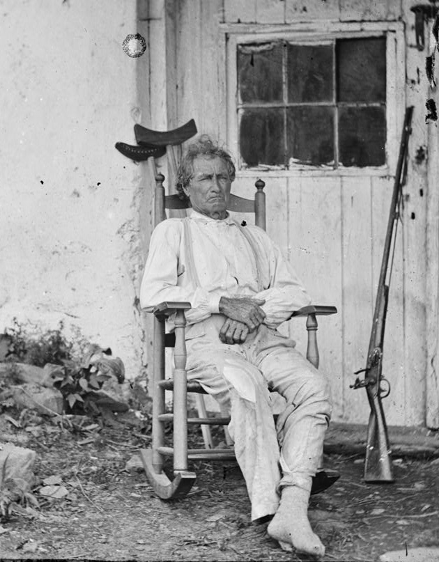 TITLE: Gettysburg, Pennsylvania. John L. Burns, the "old hero of Gettysburg," with gun and crutches CALL NUMBER: LC-B811- 2401[P&P] REPRODUCTION NUMBER: LC-DIG-cwpb-01658 (digital file from original neg. of left half) LC-DIG-cwpb-01657 (digital file from original neg. of right half) No known restrictions on publication. MEDIUM: 1 negative (2 plates) : glass, stereograph, wet collodion. CREATED/PUBLISHED: 1863 July. CREATOR: Timothy H. O'Sullivan 1840-1882, photographer. NOTES: Caption from negative sleeve: John Burns, Gettysburg, Pa. Two plates form left (LC-B811-2401B) and right (LC-B811-2401A) halves of a stereograph pair. Forms part of Civil War glass negative collection (Library of Congress). Cropped photo by Hal Jespersen 18:08, 3 November 2006 (UTC)